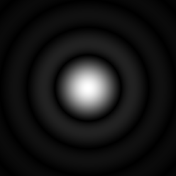 Airy disk. Diffraction pattern of a point light-source seen through a round aperture. I ( r ) = ( J 1 ( r ) r ) 2 {\displaystyle I(r)=\left({\frac {J_{1}(r)}{r \right)^{2 The brightness of the color shows the square-root of the intensity, since the patterns could hardly be seen at a linear scale.